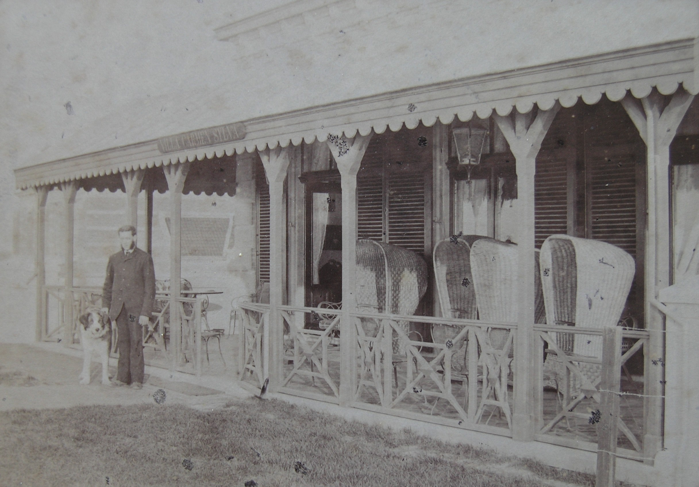 Villa Carmen Sylva 1892 with possibly Ernst Loges